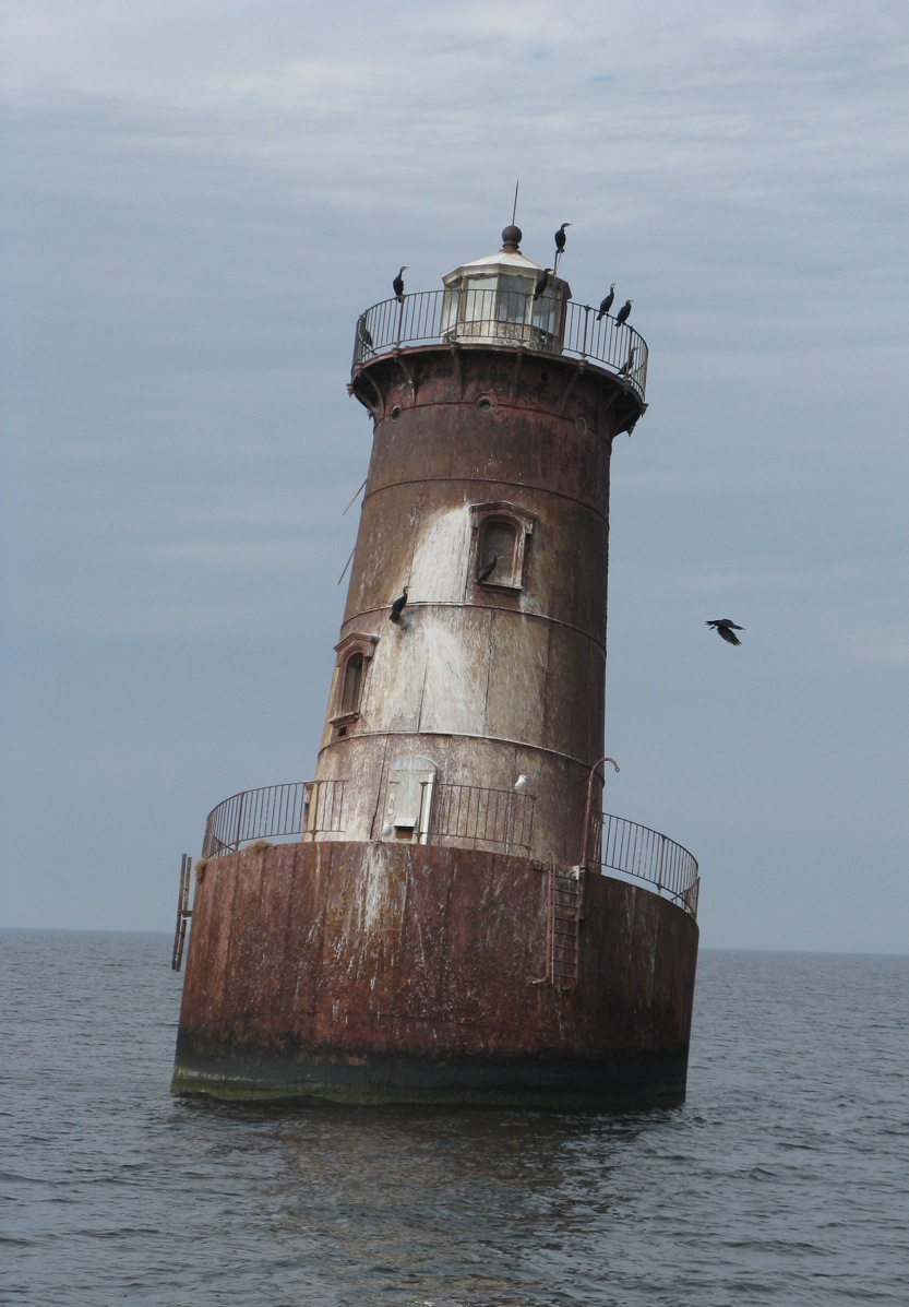 Sharps Island Light, Chesapeake Bay, Maryland, USA. Photo taken on October 23, 2009.